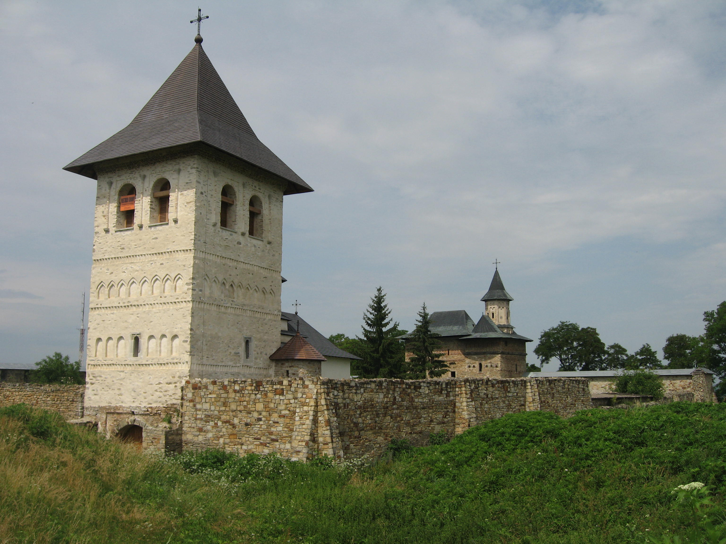 Zamca Monastery in Suceava.